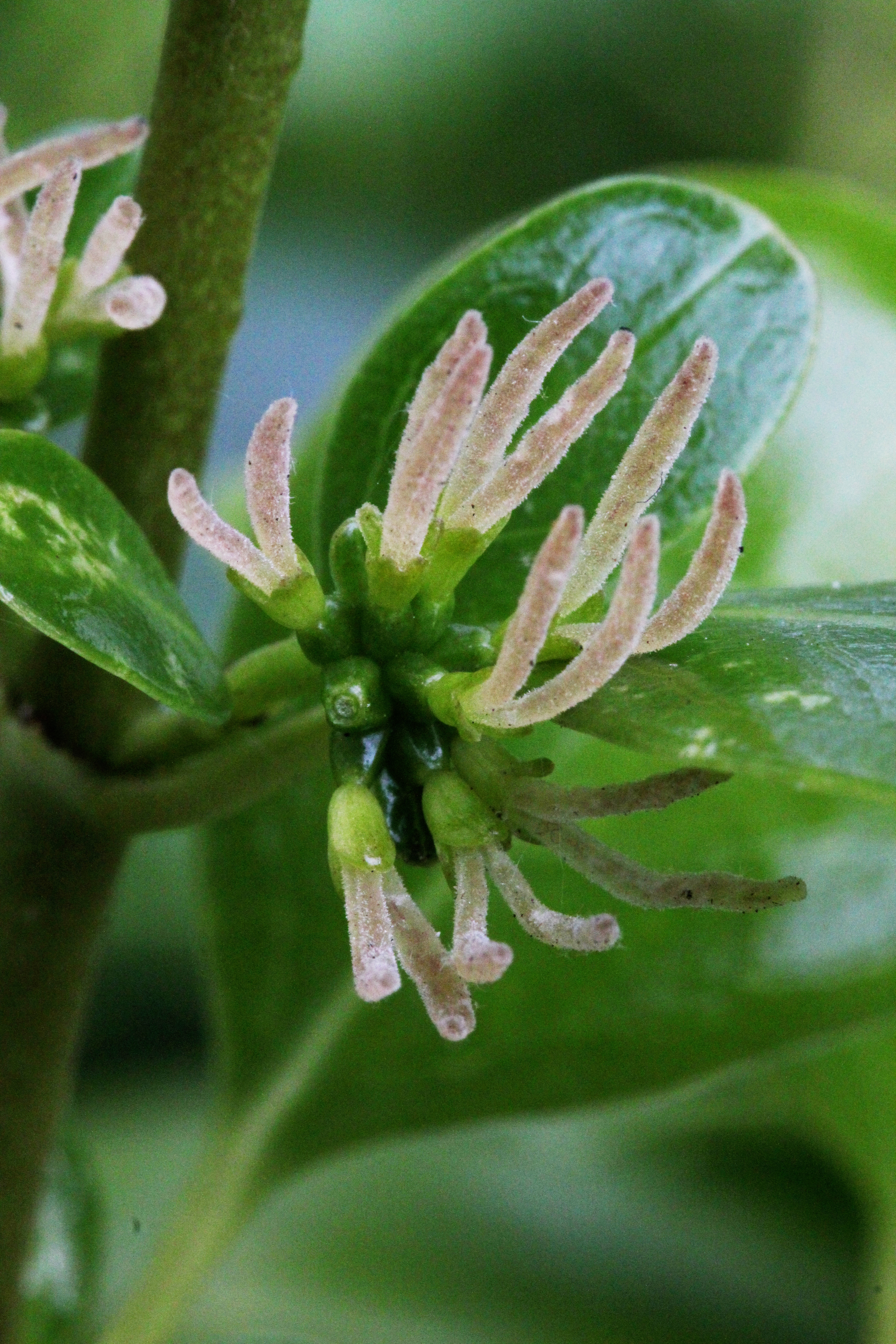 Female taupata flower (Coprosma repens). Photo taken in Auckland, New Zealand.